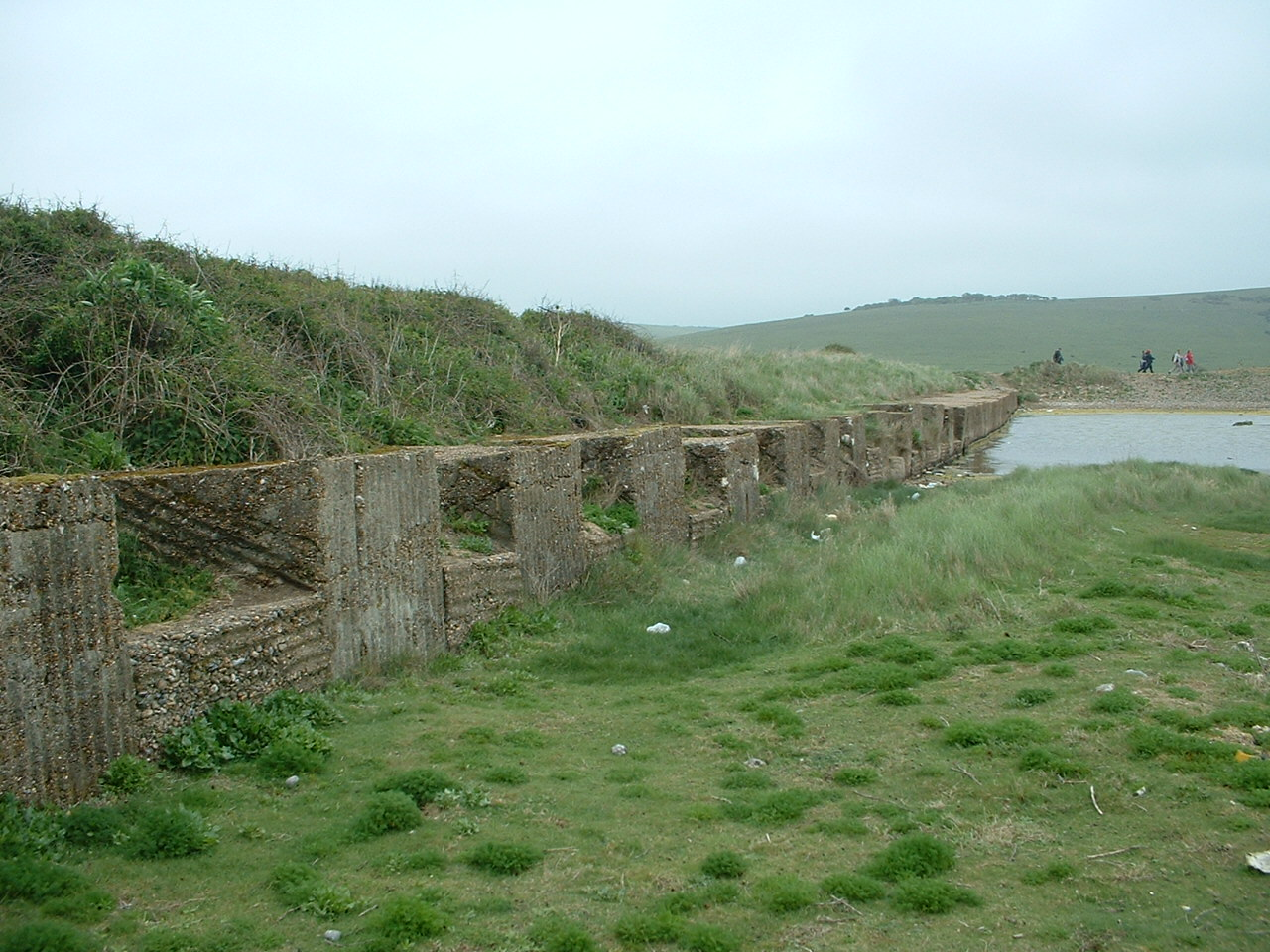 Anti-tank Wall, Cuckmere Haven